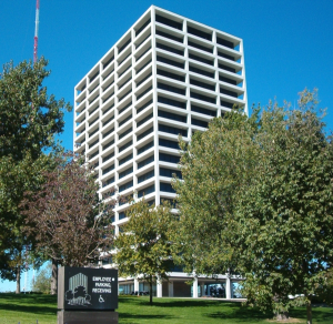 Landmark Tower, formerly BMA Building, Kansas City, Missouri, United States.